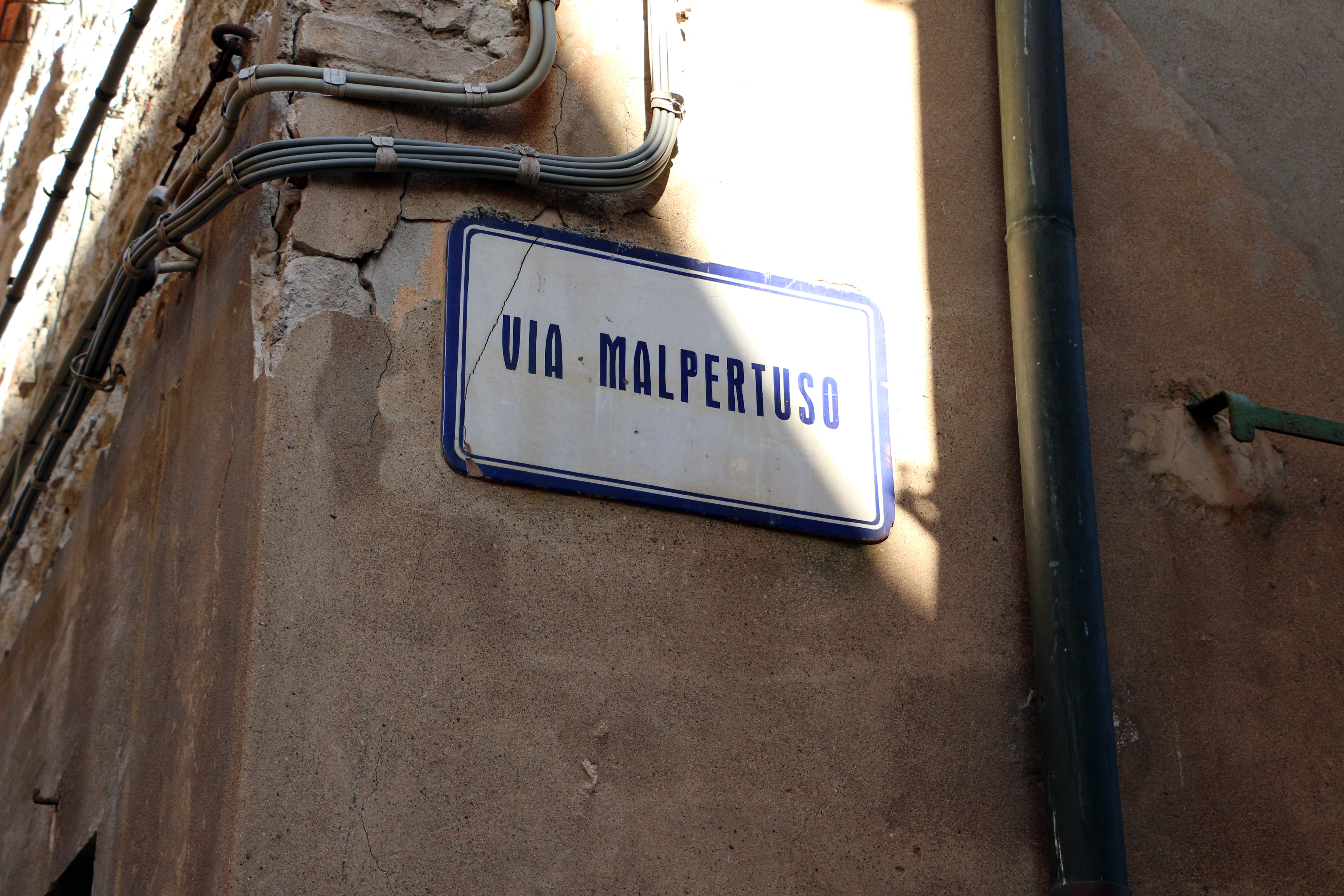 Buildings in Piombino